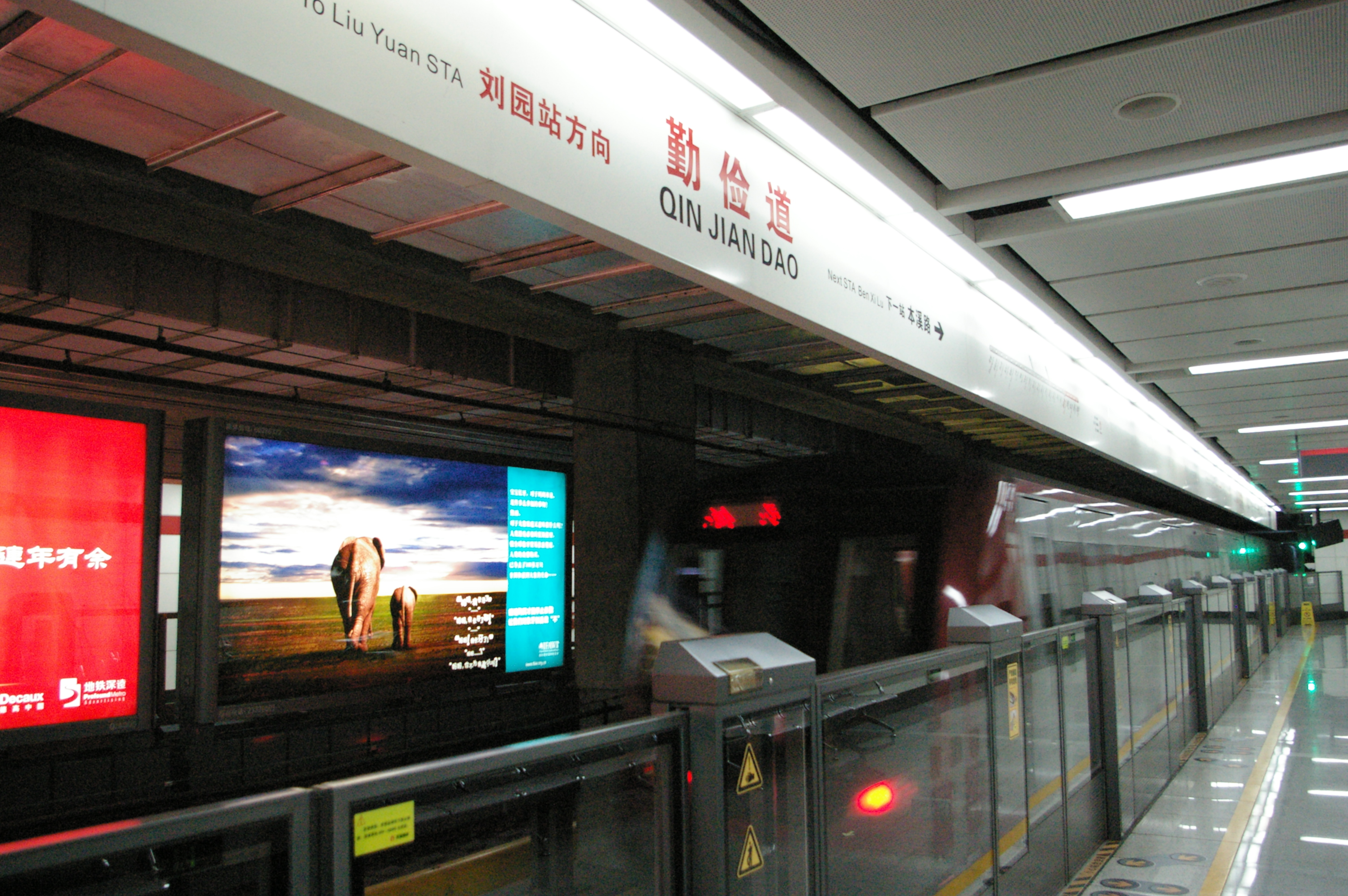 Qinjiandao Station, Tianjin Subway